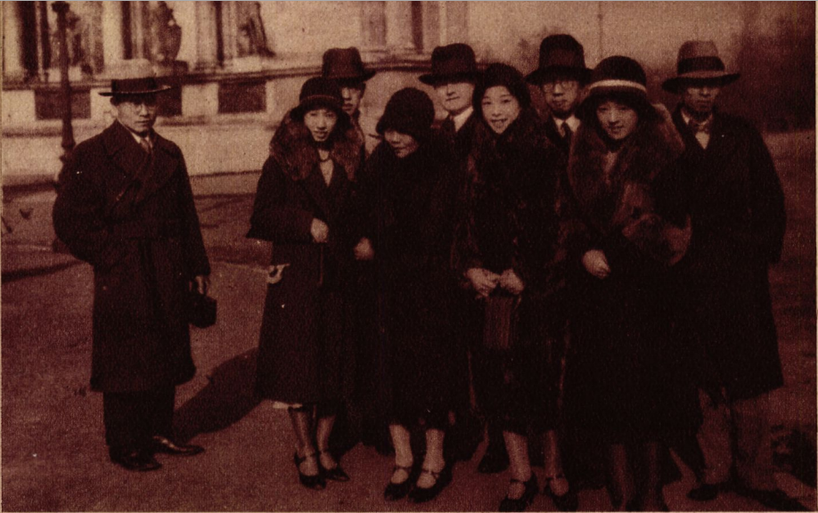 Kengeki Actor Tokujiro Tsutsui (1881-1953) and cast visit Budapest during the time of their performances in Városi Színház (City Theatre) in november, 1930.